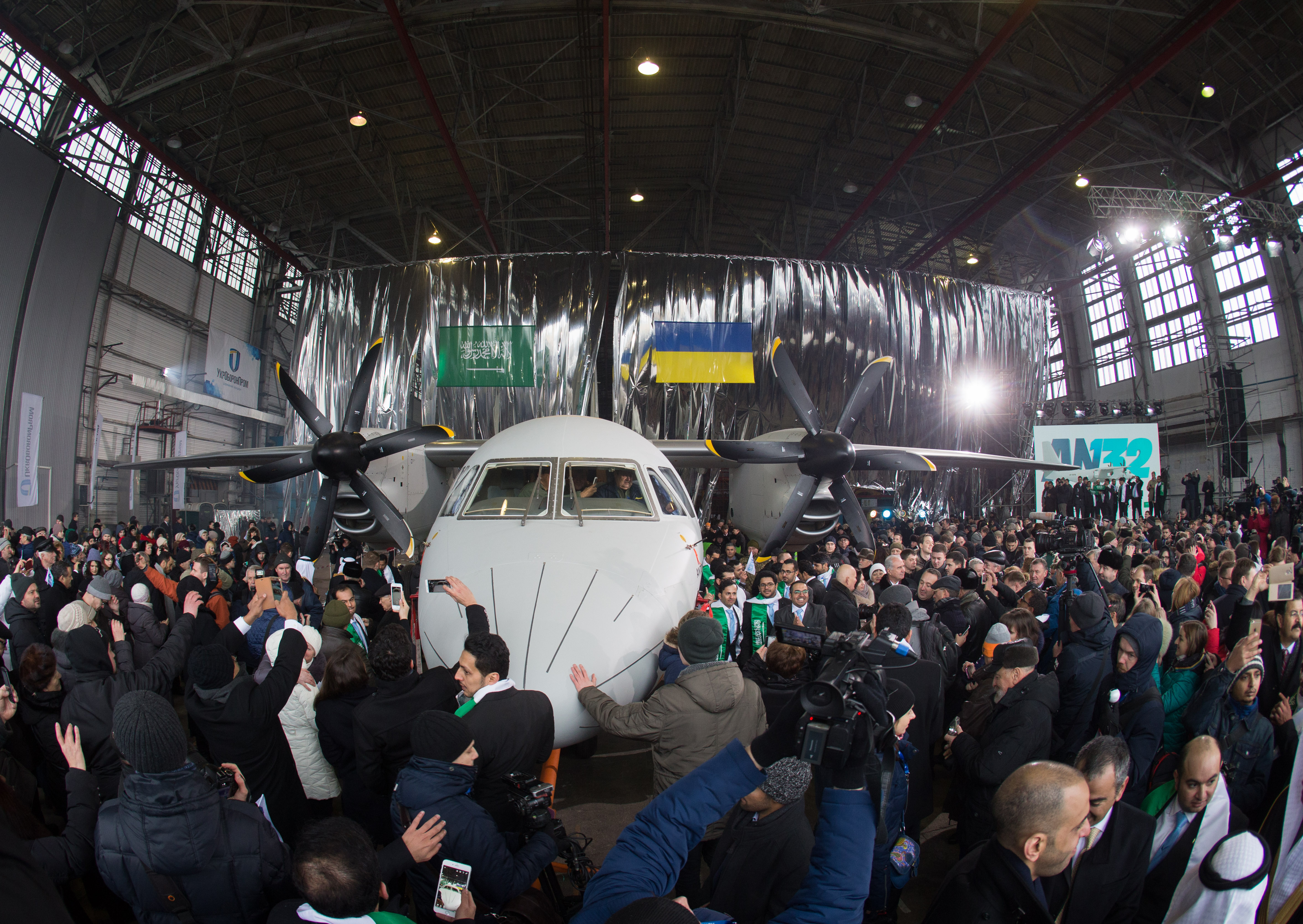 Antonov An-132D roll out ceremony